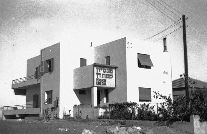 Kaete Dan hotel in Tel Aviv 1933